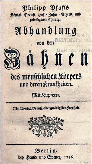 Cover of the book: Philipp Pfaff: Abhandlung von den Zähnen des menschlichen Körpers und deren Krankheiten